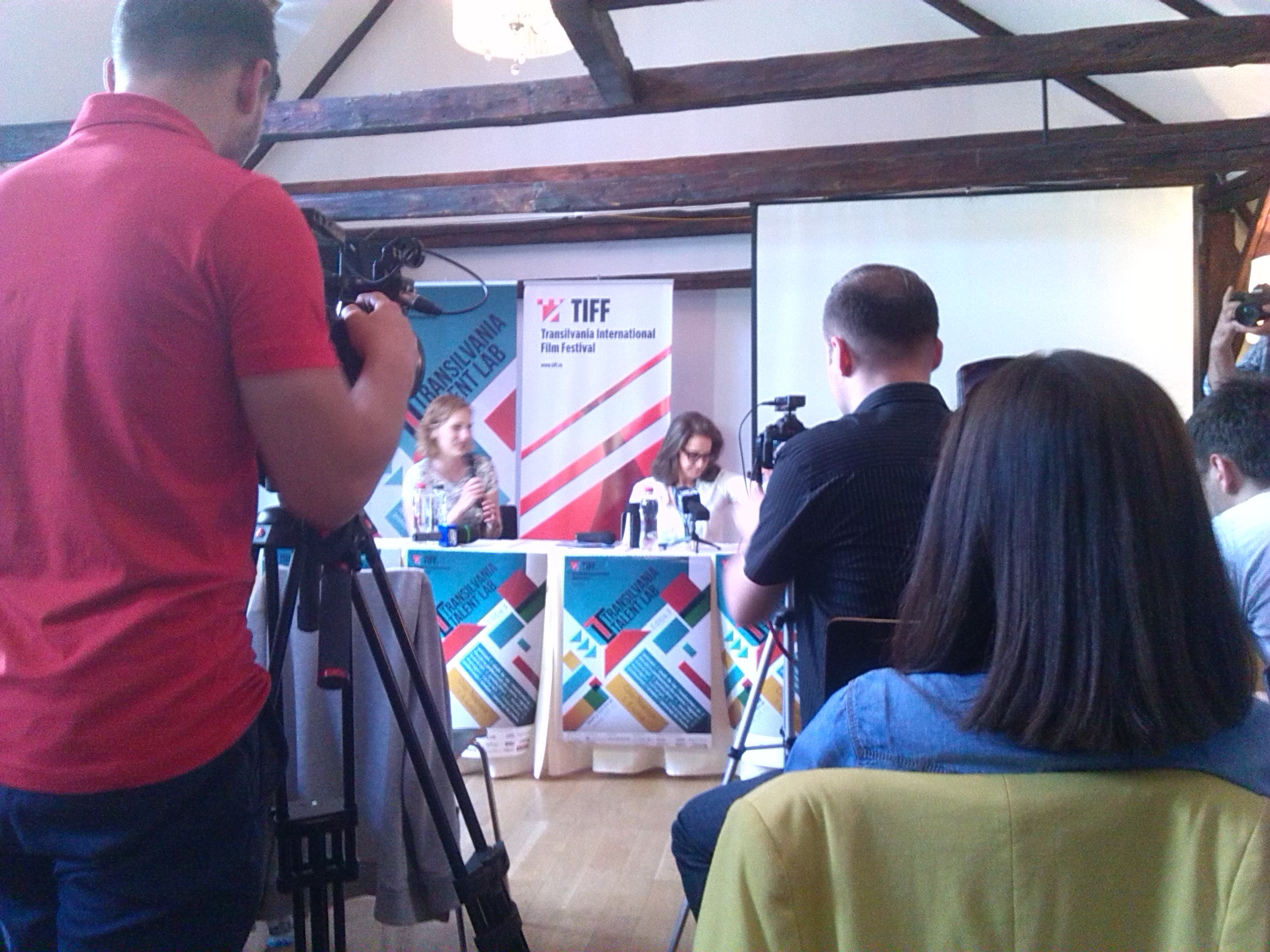 Picture of actress Debra Winger (right) giving a master class at the Talent Lab of Transilvania International Film Festival 2014, Cluj-Napoca, Romania. Photograph by Federico Gatto, 2014.